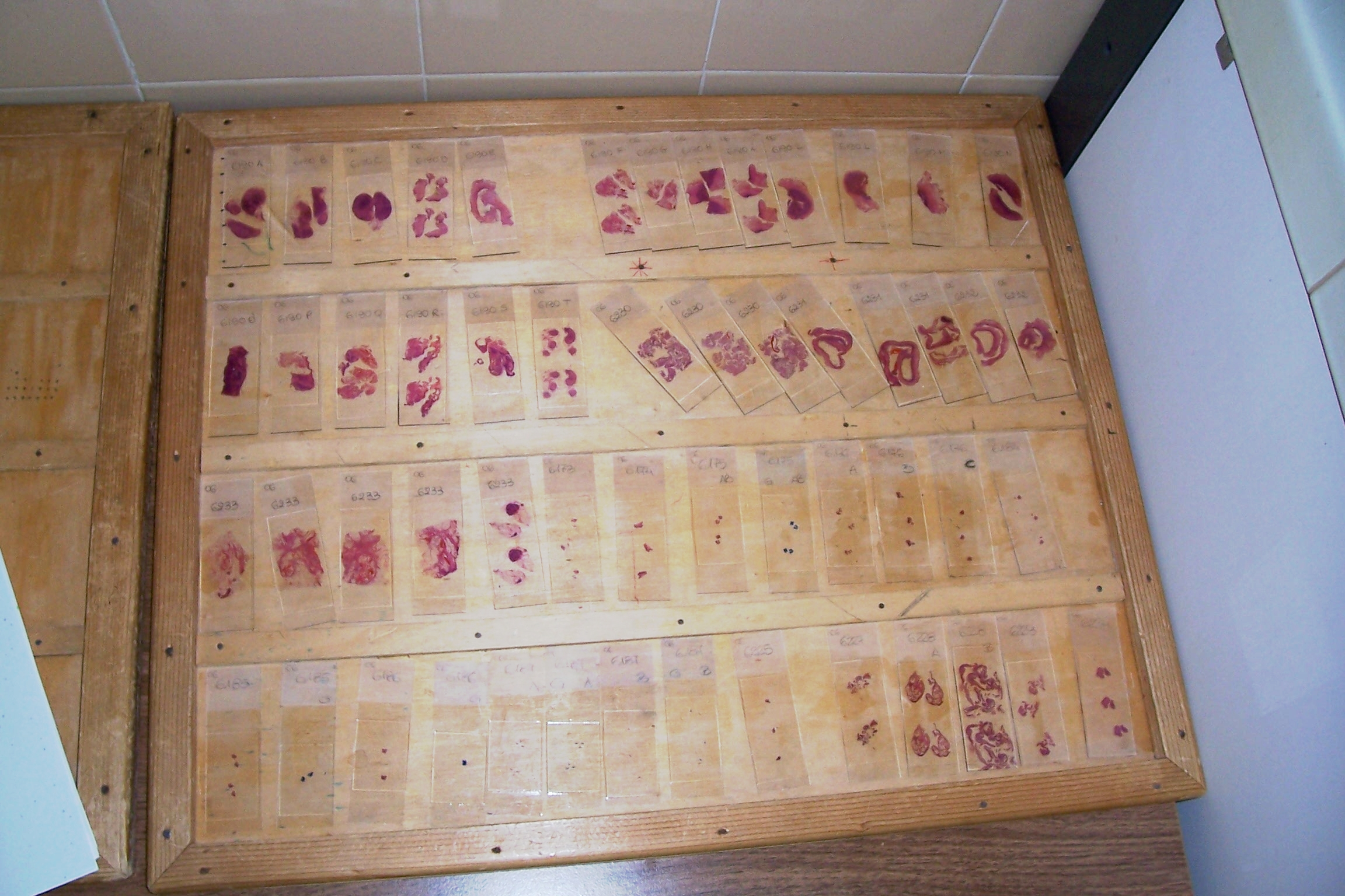 Lab. of Pathology - Monfalcone Hospital (Italy). How histological slides are prepared in practice. Here the final result: routine H & E slides ready to be seen at microscope.